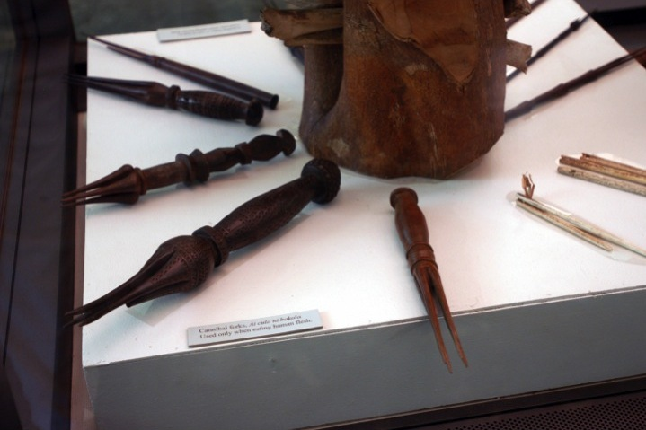 TAB00S STIPULATE THAT HUMAN FLESH MAY NOT TOUCH THE HANDS SO THESE FORKS ARE USED